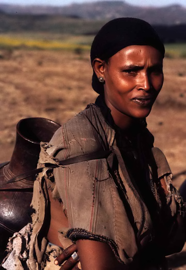 Driving from Asmara-Eritrea to Addis Ababa-Ethiopia, we passed a group of women carrying their earthenware water jugs in their backs.